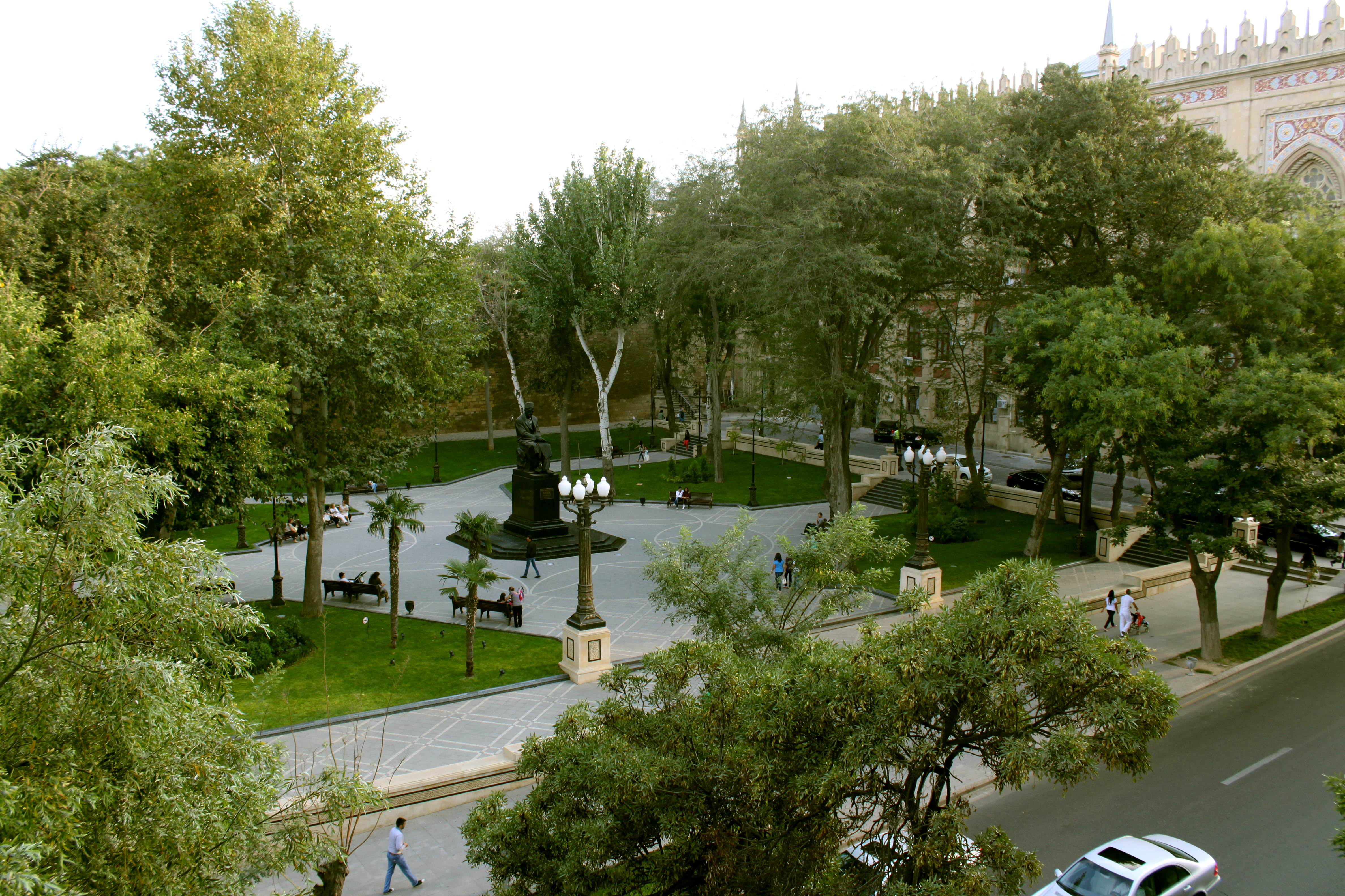 Sabir garden